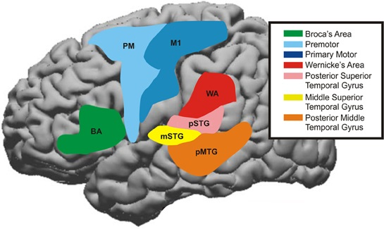 The time course for cortical areas that have been shown to be involved in speech processing were summated across patients. These areas were Premotor area [PM, Brodmann's Area (BA) 6], primary motor area (M1, BA4), middle superior temporal gyrus (mSTG, middle portion of BA22), posterior superior temporal gyrus (pSTG, BA41+42), Broca's Area (BA44+45), Angular gyrus—Wernicke's area (WA, BA39+40) and also posterior middle temporal gyrus (pMTG, posterior part of BA21).